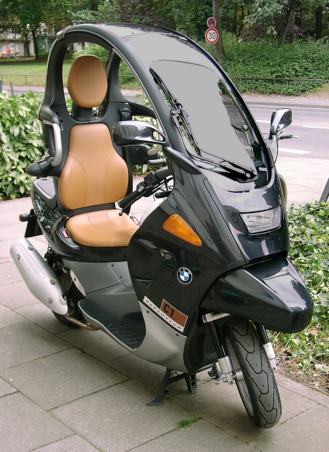 C1 superscooter by BMW